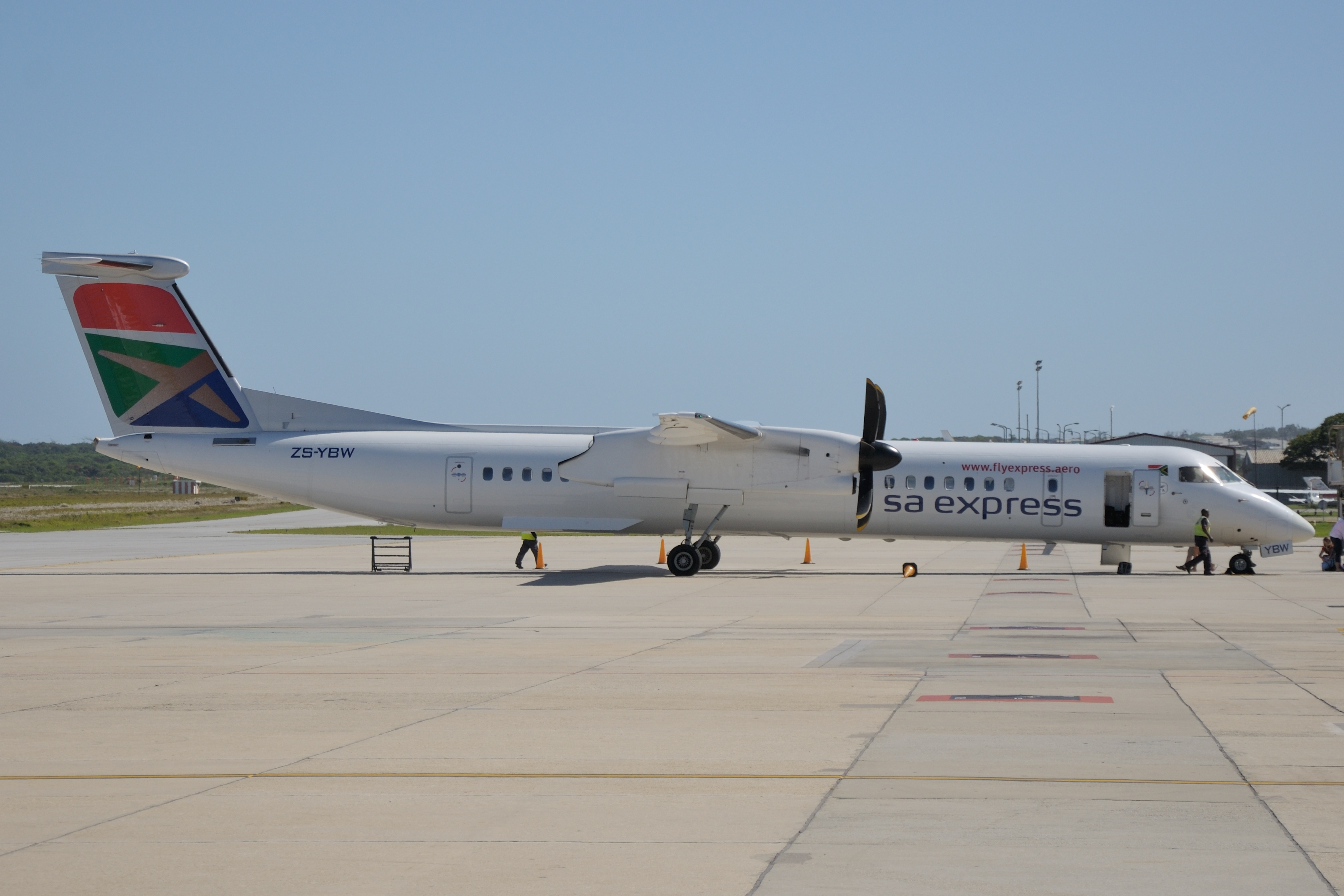 South Africa, spotting at King Shaka International Airport in Durban